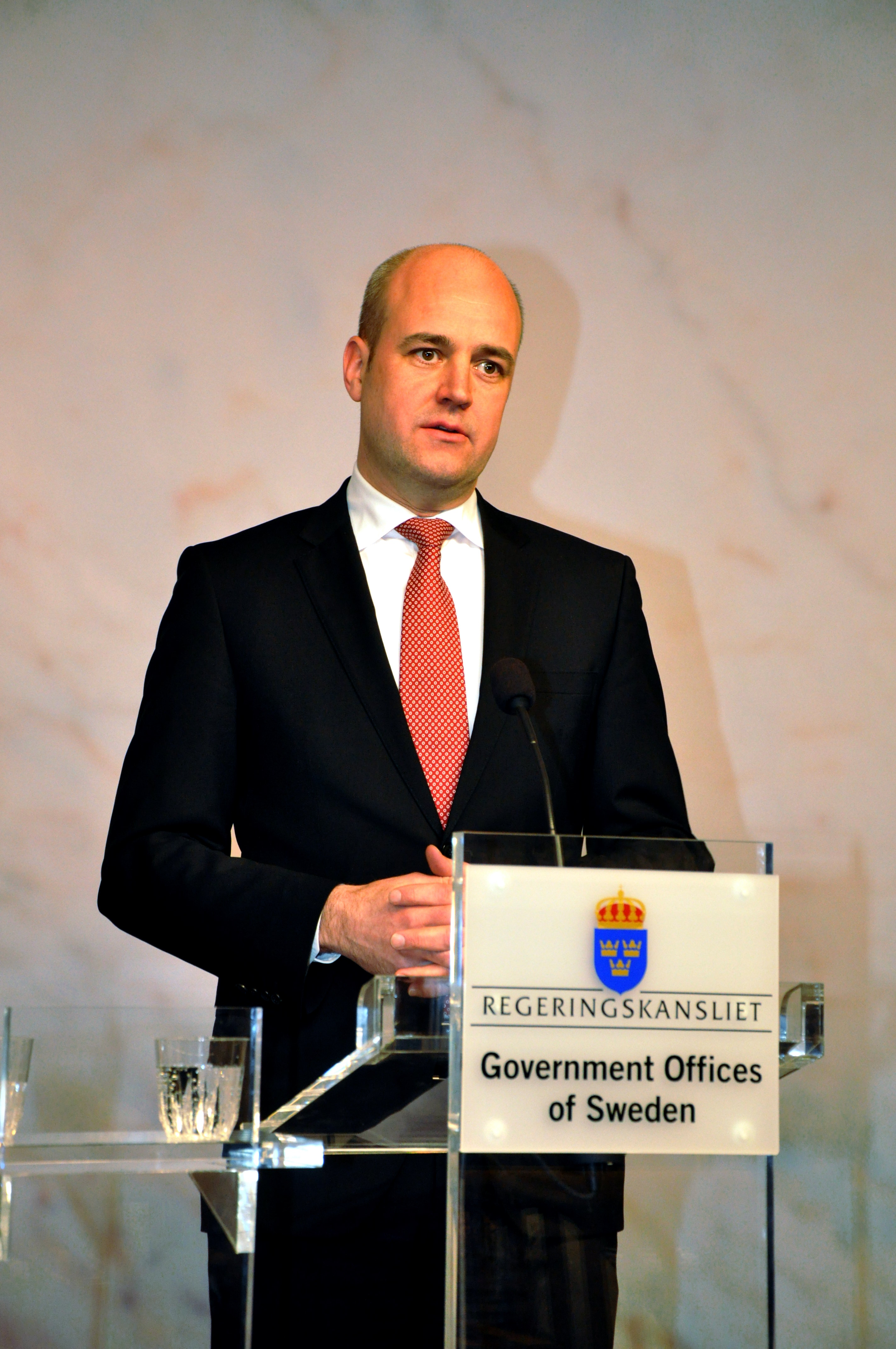 Fredrik Reinfeldt, Prime Minister of Sweden, during the Estonian state visit to Stockholm, Sweden, 18-20 January 2011.